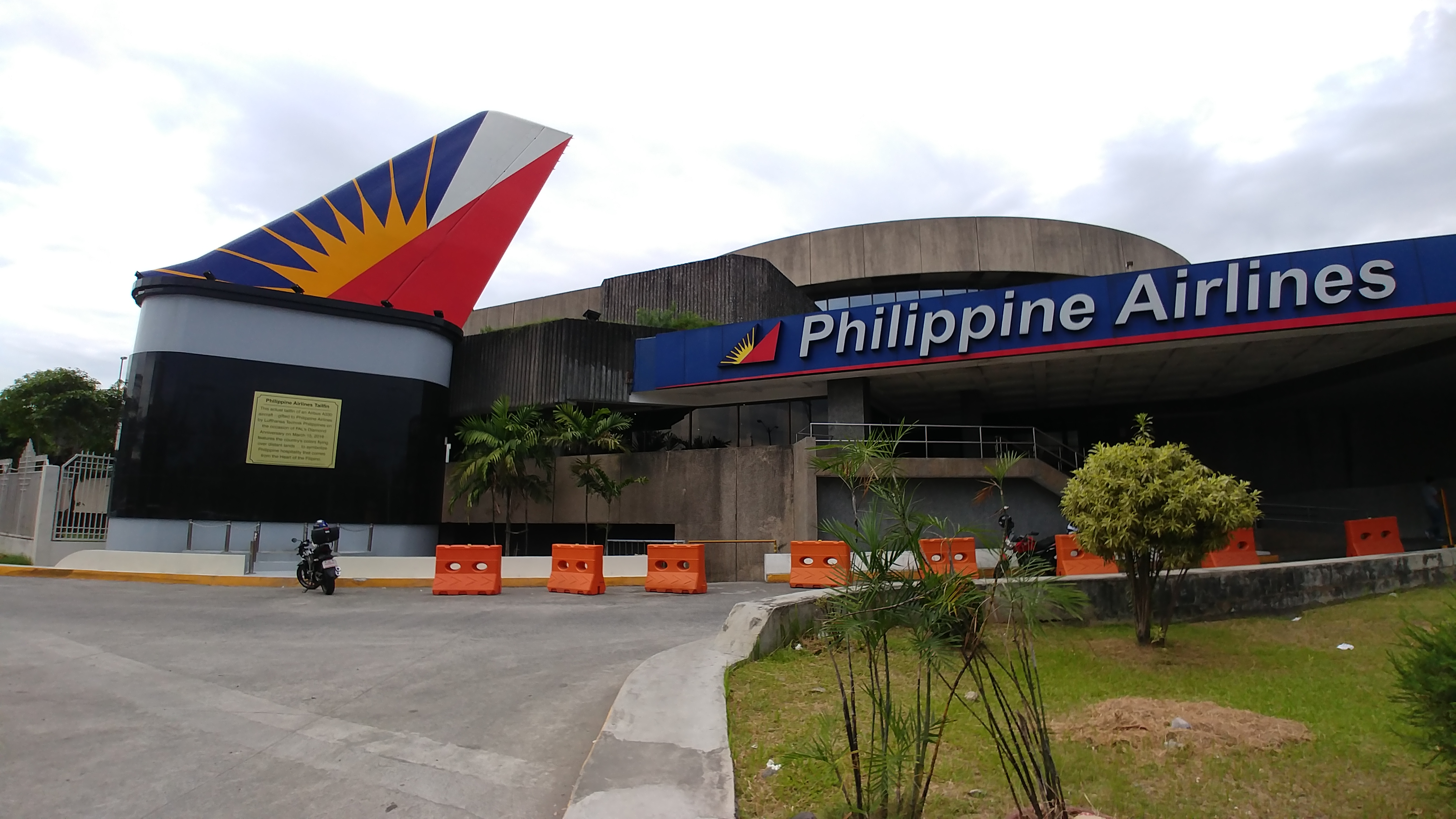 The facade of the Philippine Airlines headquarters along Diosdado Macapagal Boulevard in Pasay City.